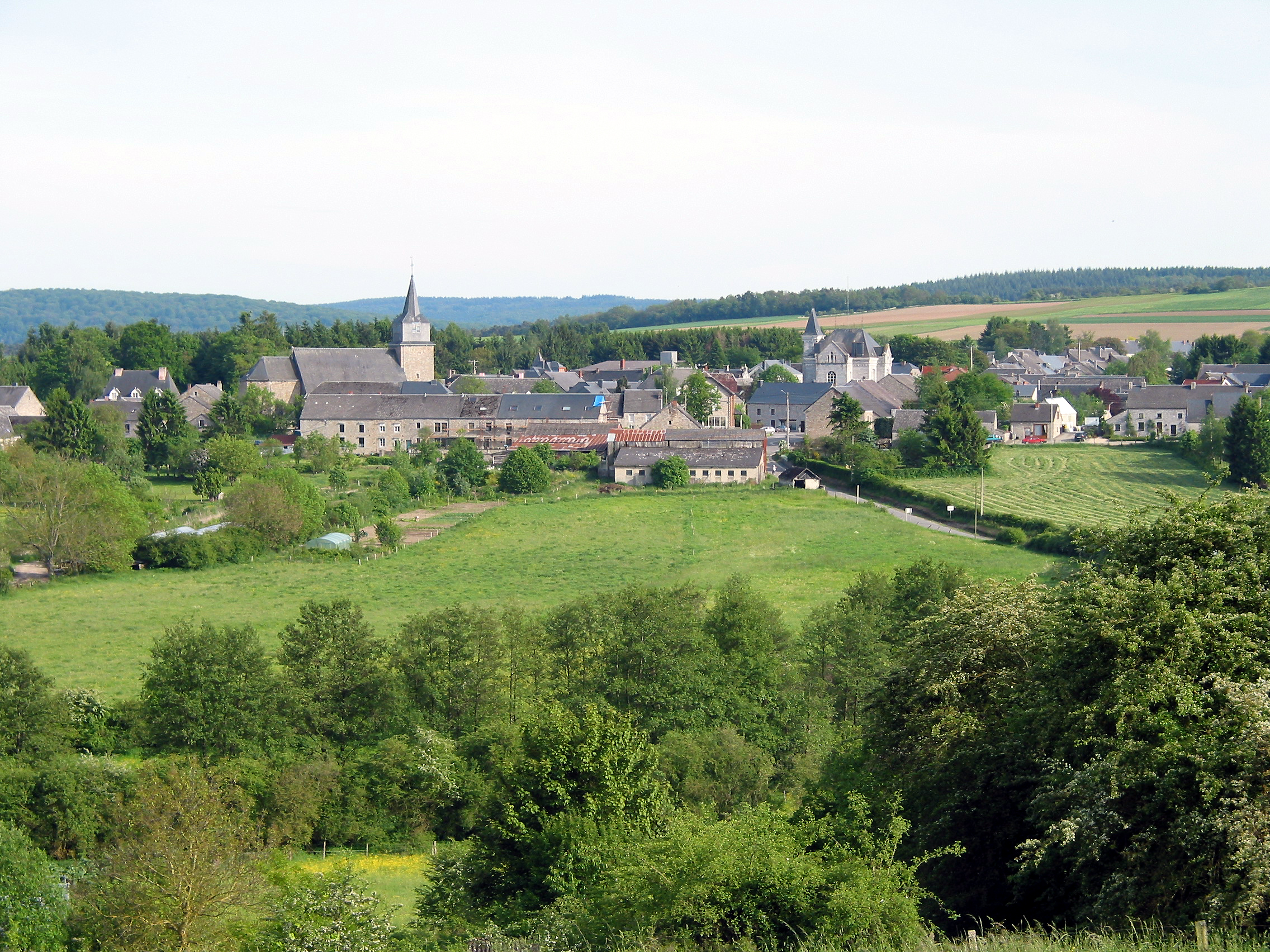 Wellin (Belgium), the village seen from the Lavaux Sainte-Anne road.